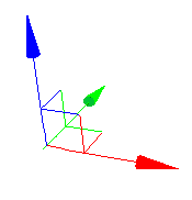 A 3D Graphics "Gnomon"